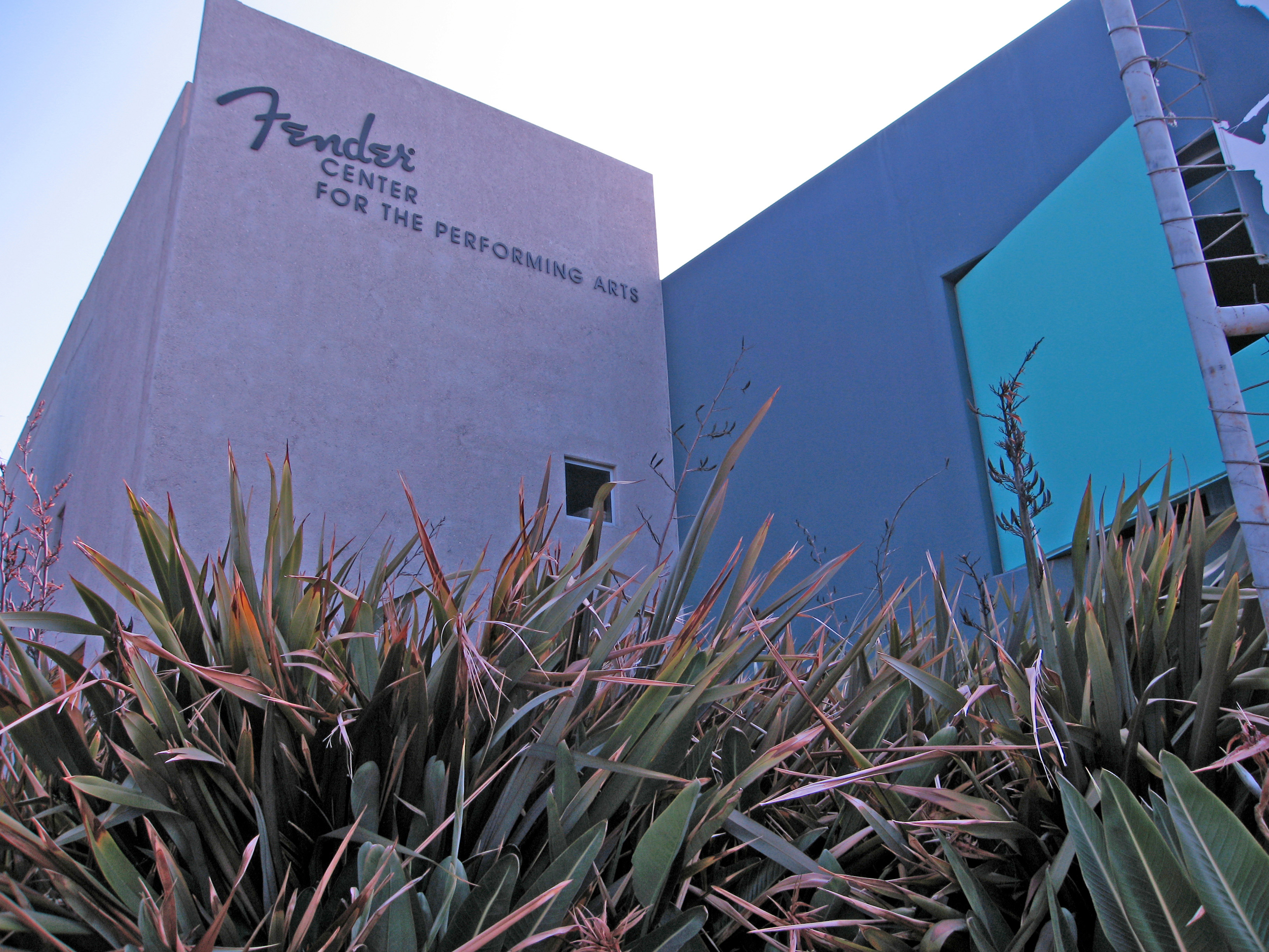 In Corona, California.